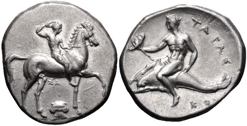 CALABRIA, Tarentum. Circa 302 BC. AR Nomos (20mm, 7.87 g, 11h). Nude youth on horseback right, crowning himself; below, ΣA above Ionic capital / Phalanthos on dolphin left, [holding serpent]; KO[N] below. Fischer-Bossert group 75, 971 (V378/R747); Vlasto 654 (same dies); HN Italy 947. EF, lightly toned. This late die state for the reverse features a strong die break over the serpent held in Phalanthos’ right hand. Classical Numismatic Group, the copyright holder of this work, hereby publishes it under the following licenses: Attribution: Classical Numismatic Group, Inc.